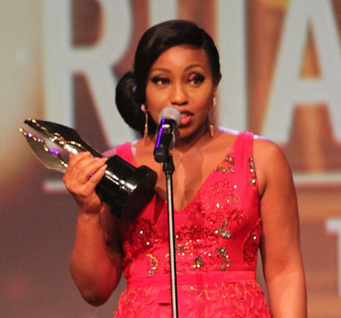 Rita Dominic at the 2014 Africa Magic Viewers Choice Awards